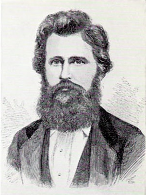 William Paterson, General Secretary of the Associated Carpenters and Joiners of Scotland, later Superintendent of the Glasgow Fire Brigade